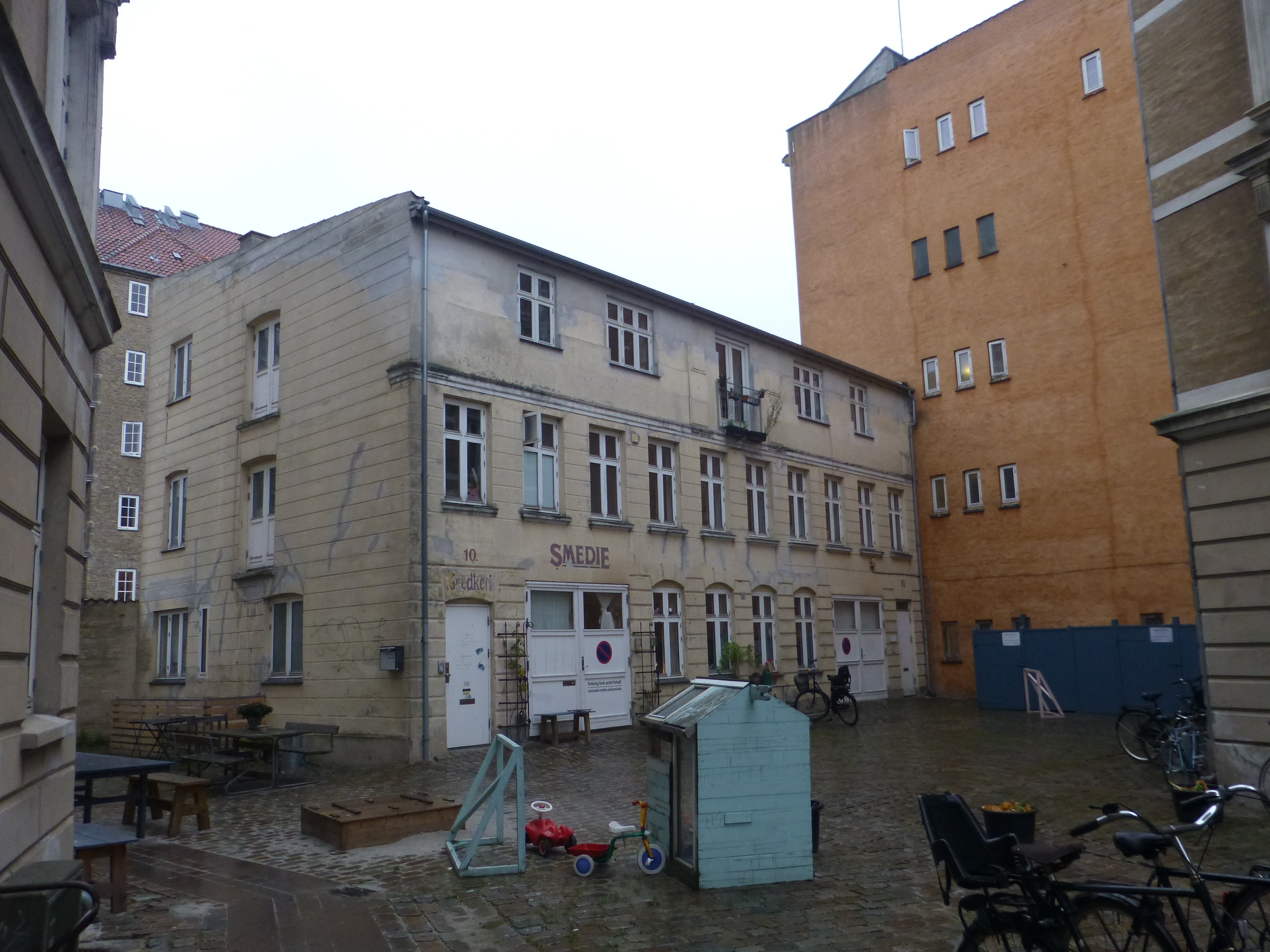 The street Lille Farimagsgade in Østerbro in Copenhagen.